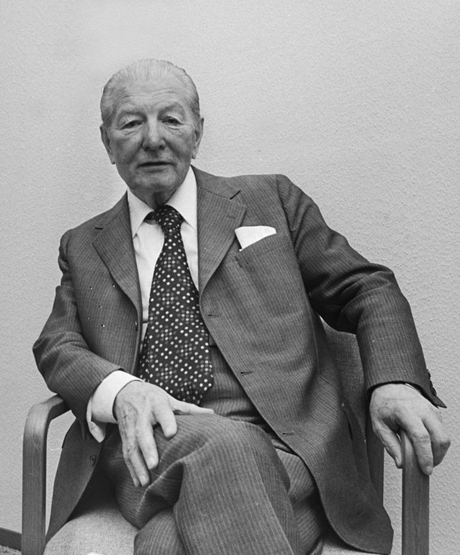 Pieter Menten waiting for court proceeding in Amsterdam, Mai 1977